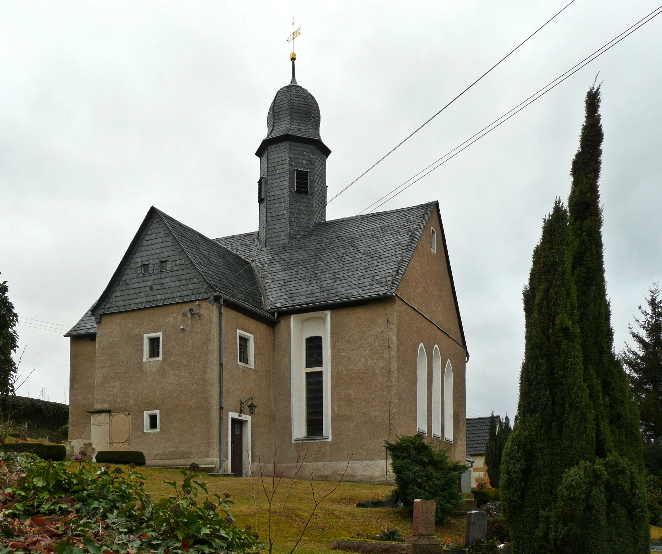 This image shows the evangelic church (built 1507) in Döbra near Liebstadt in Saxony.